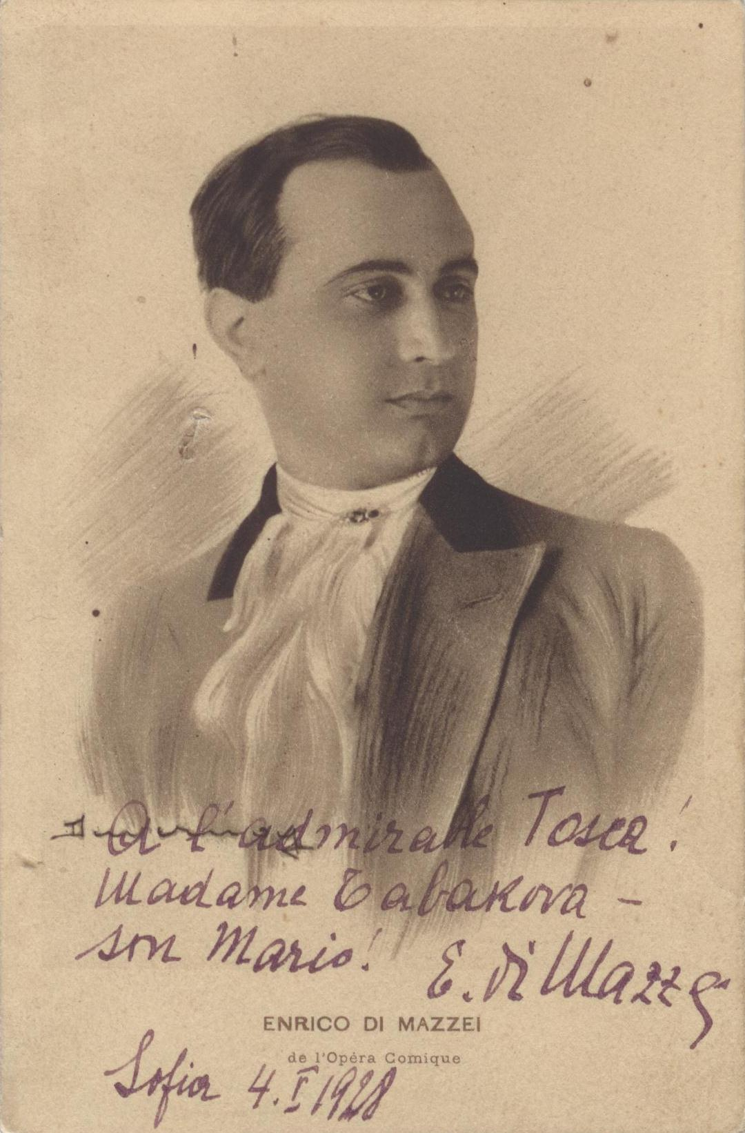 Bulgaria born Italian opera singer Enrico di Mazzei - postcard with autograph in the archive of Tzvetana Tabakova. Sofia